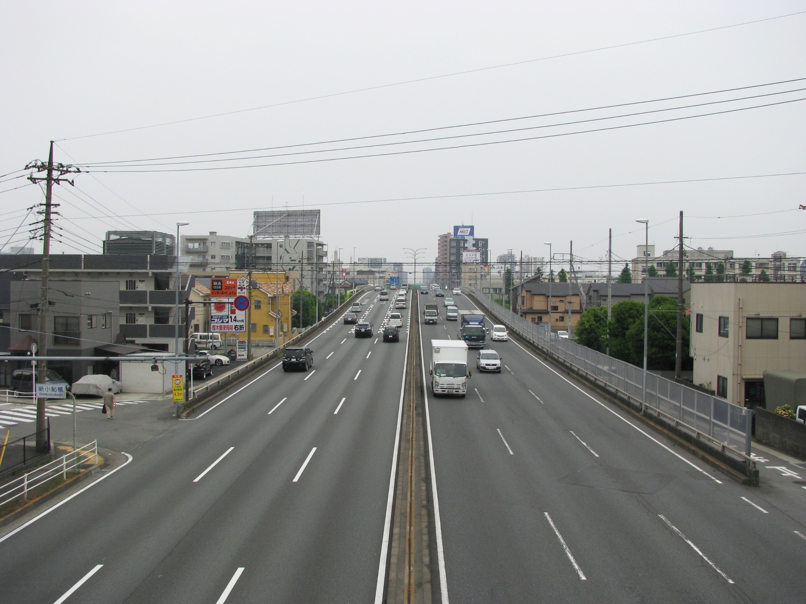 The Japan National Route 246. This location is Tsumada-minami in Atsugi, Kanagawa Prefecture, Japan.